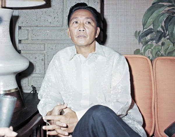 Philippine President Ferdinand E. Marcos